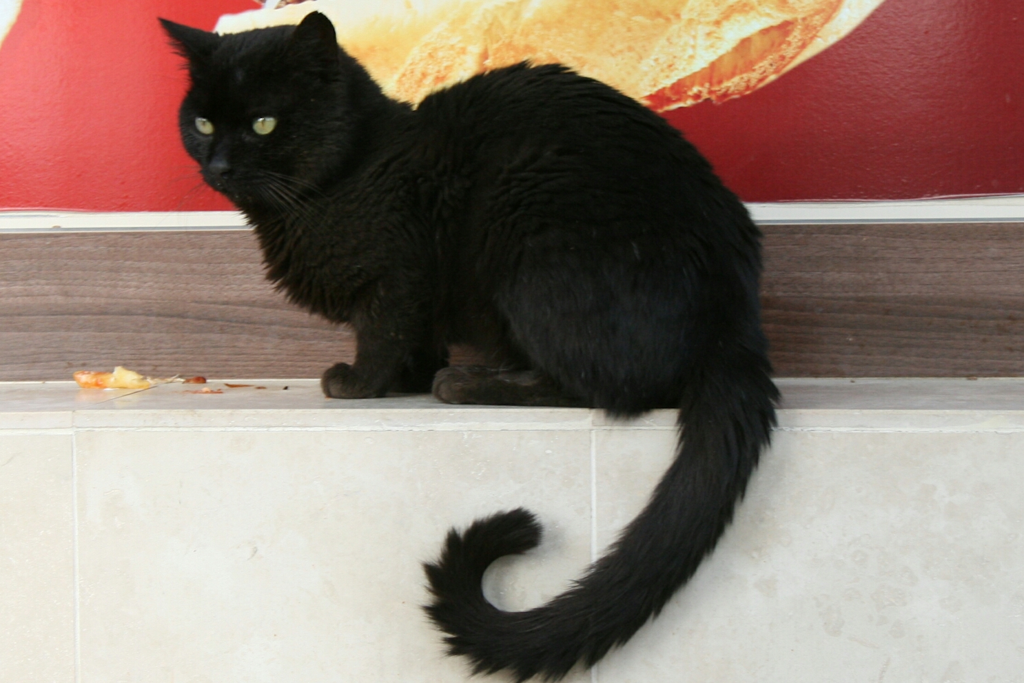 Black cat in Pamukkale, Turkey